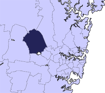 Locator Map Blacktown lga sydney.png Based on Image:Ku-ring-gai sydney.png by User:Randwicked.